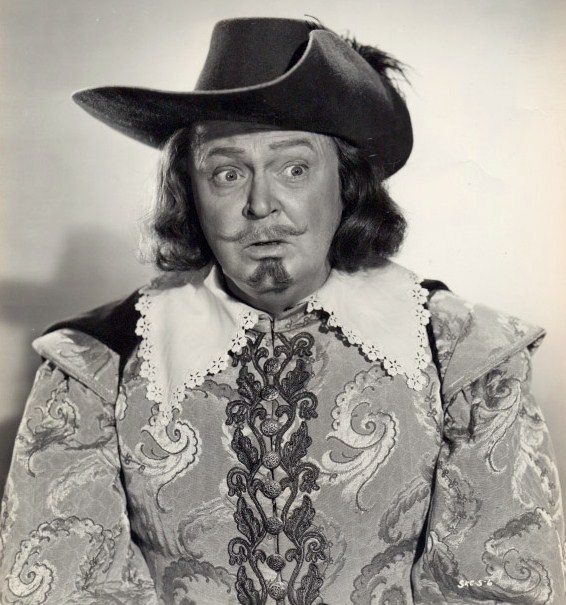 Don Beddoe in Cyrano de Bergerac, released in 1950 - publicity still (original image cropped : see source)